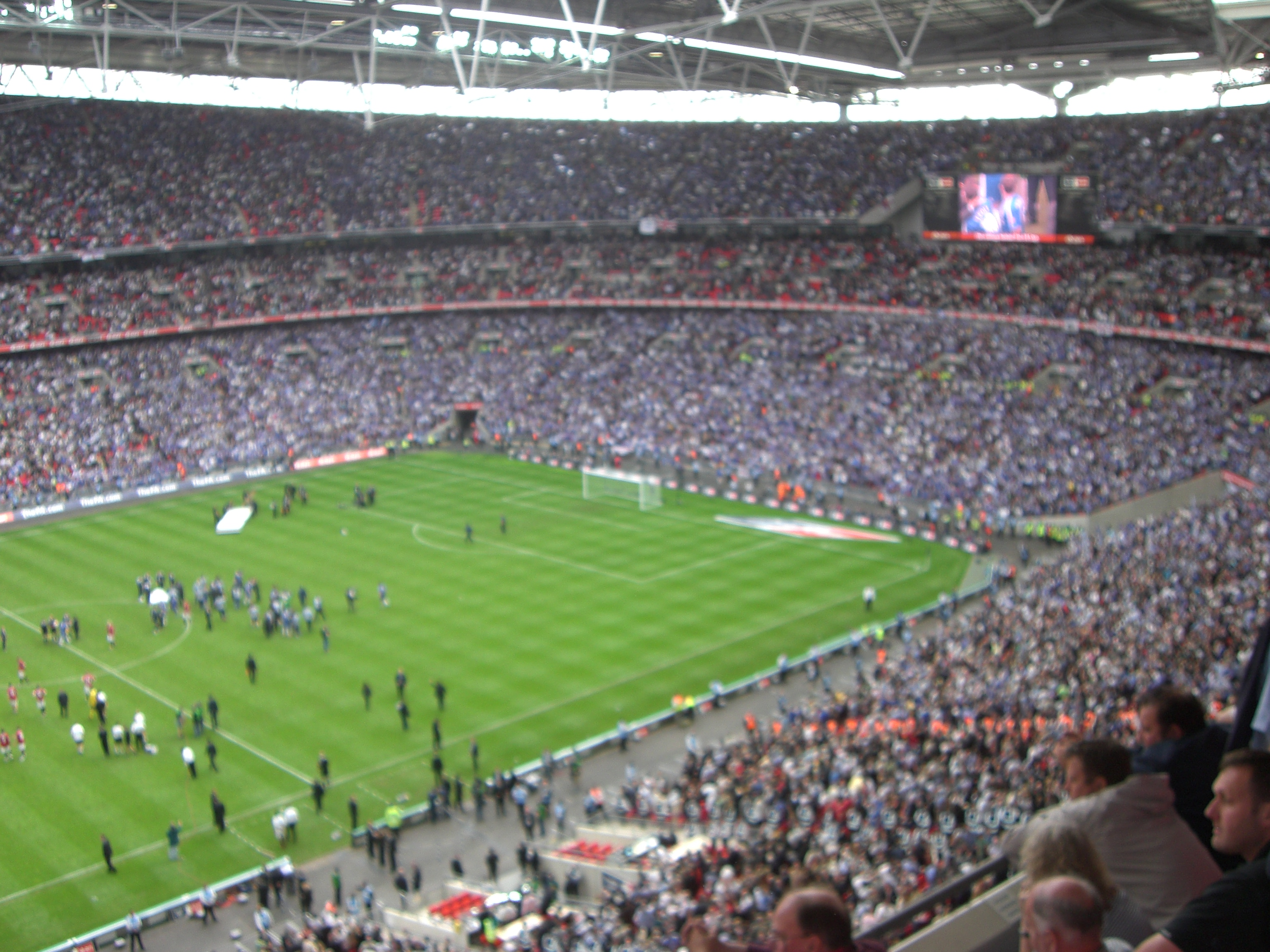 FA-cup final at New Wembley: Chelsea vs Man. United 0-1 a.e.t.